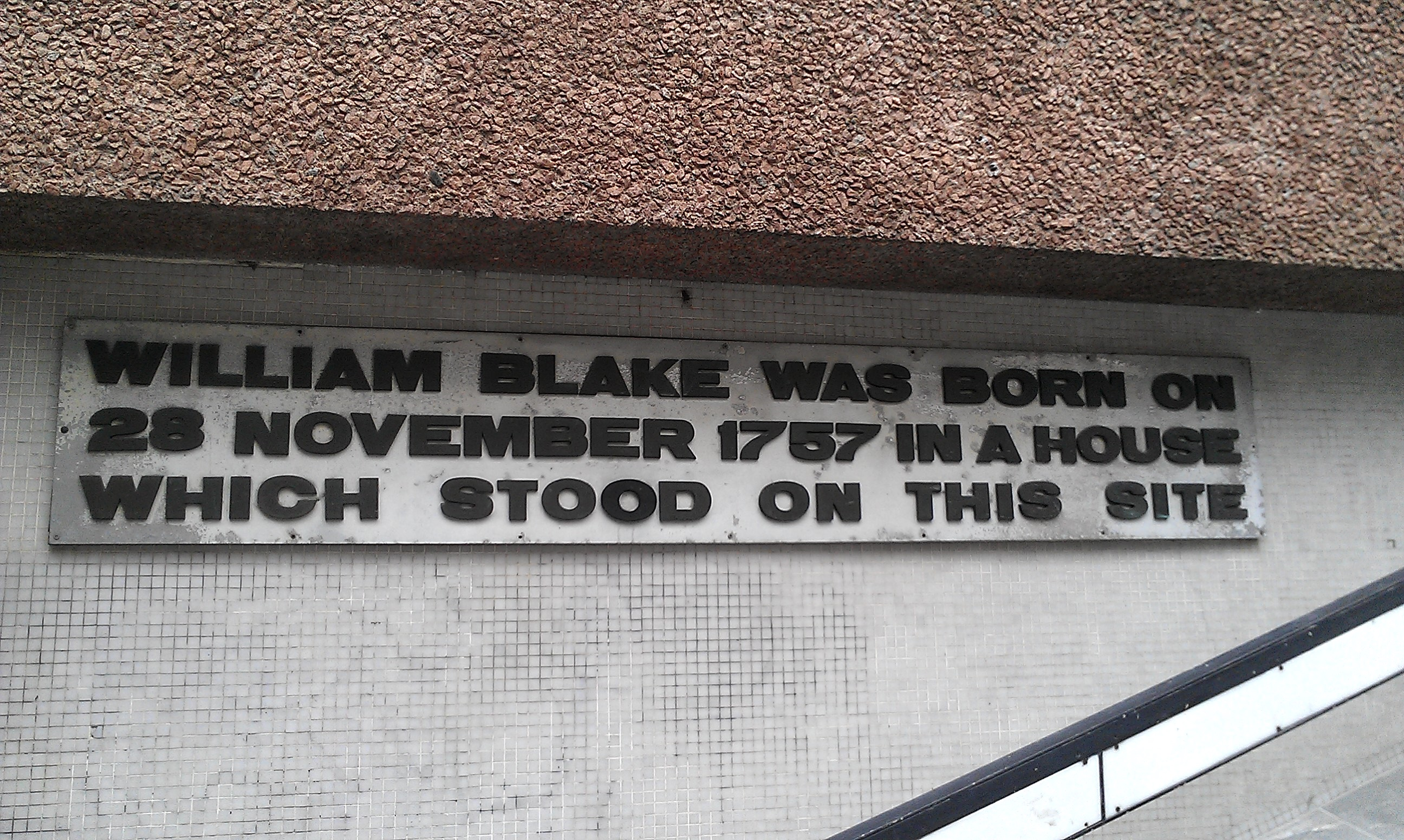 A memorial marking the birthplace of William Blake in Soho, part of the City of Westminster, central London.